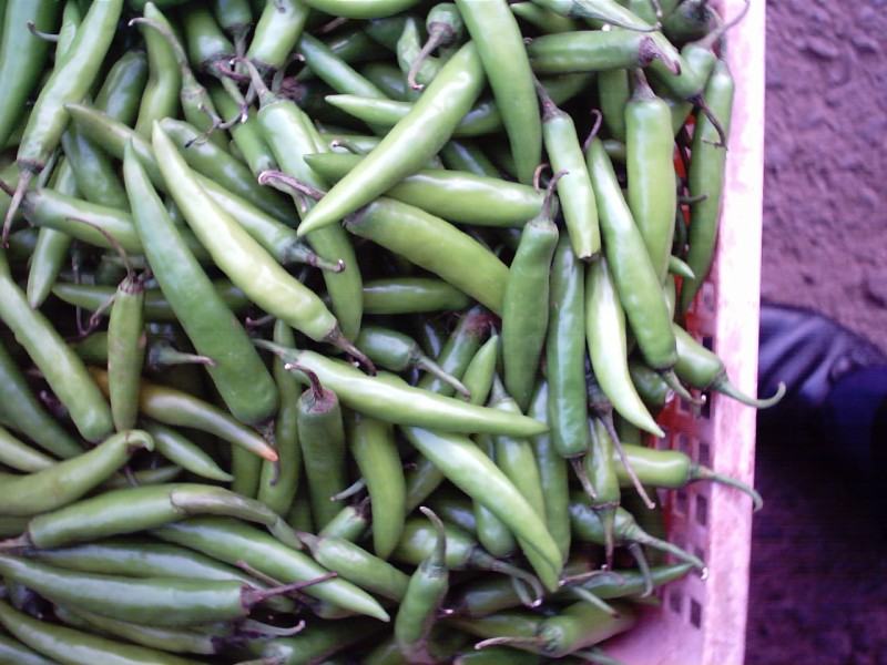 Chilli pepper, Capsicum